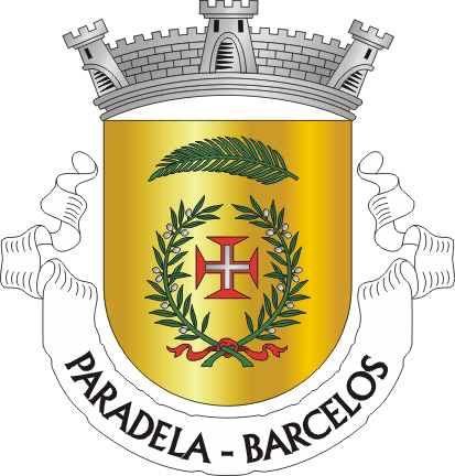 Crest of Paradela, a parish in the municipality of Barcelos (Portugal)